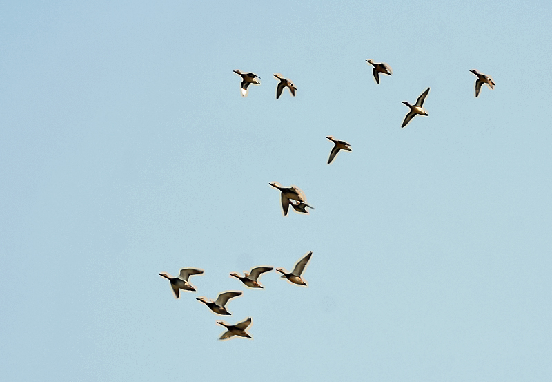 Common Teal Anas crecca at Purbasthali in Burdwan District of West Bengal, India.